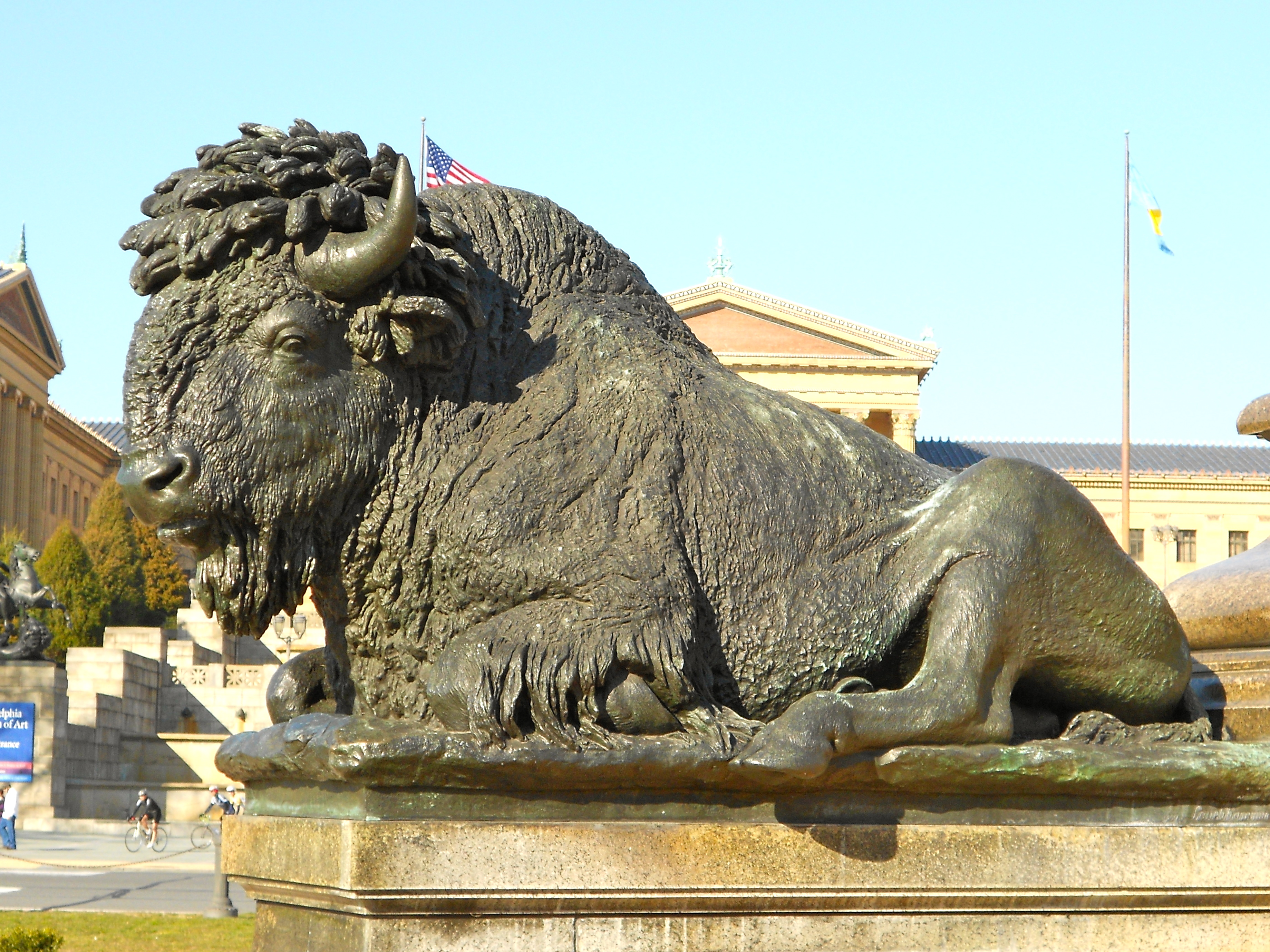 Sculpture of a buffalo 1800s in front of Philadelphia Museum of Art part of the George Washington statue.